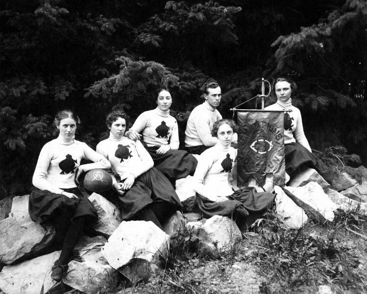 Oregon Agricultural College, currently Oregon State University, Women's Basketball team. Left to right: Bessie G. Smith, class of 1901; Letitia Ownsby, class of 1900; Elizabeth Hoover, class of 1901; Coach Will Beach; Minnie Smith, Class of 1903; Inez Fuller, class of 1900.